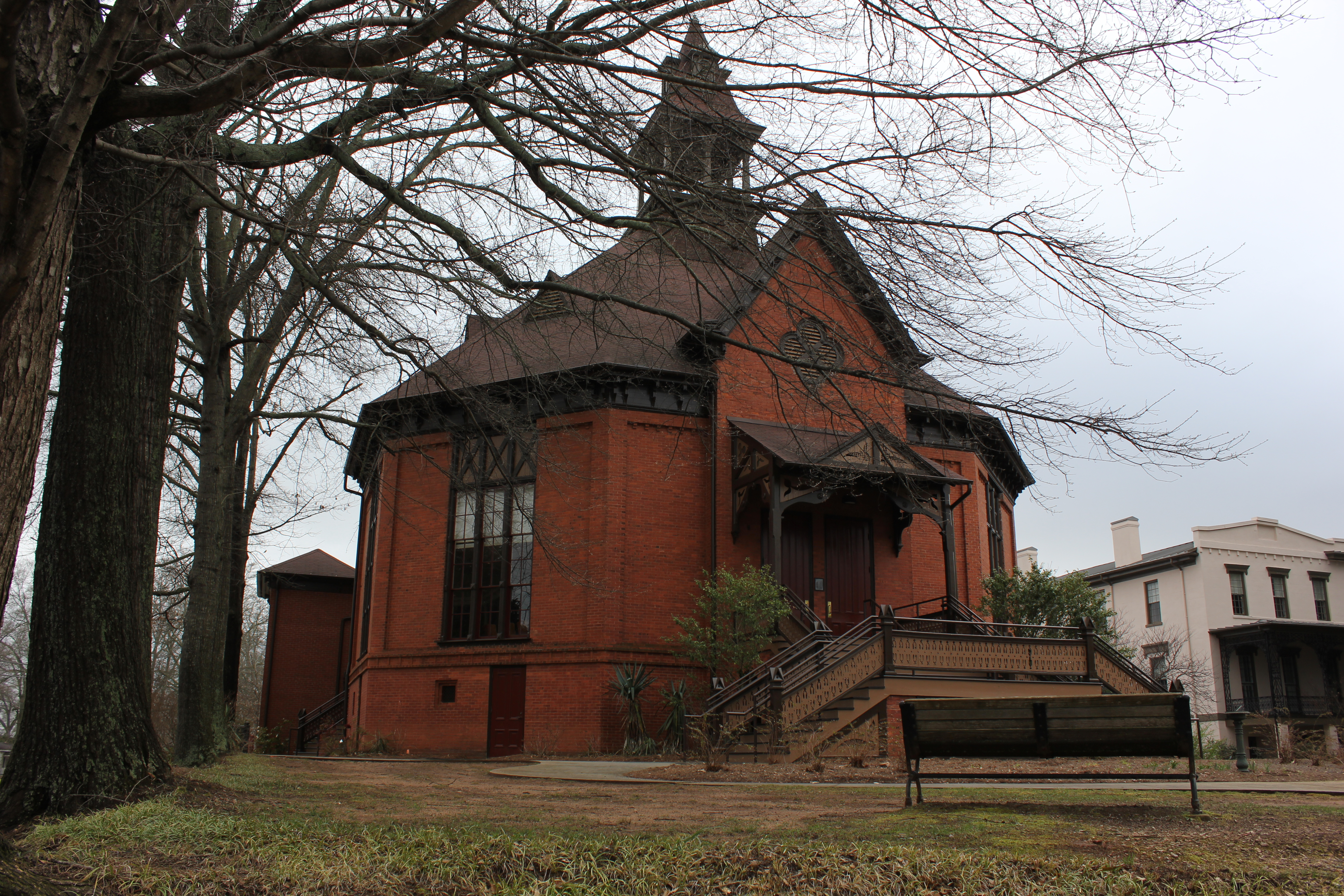 Where the band R.E.M. recorded "Swan Swan H" for the film "Athens GA Inside/Out," and where part of their 2008 album Accelerate was recrded.